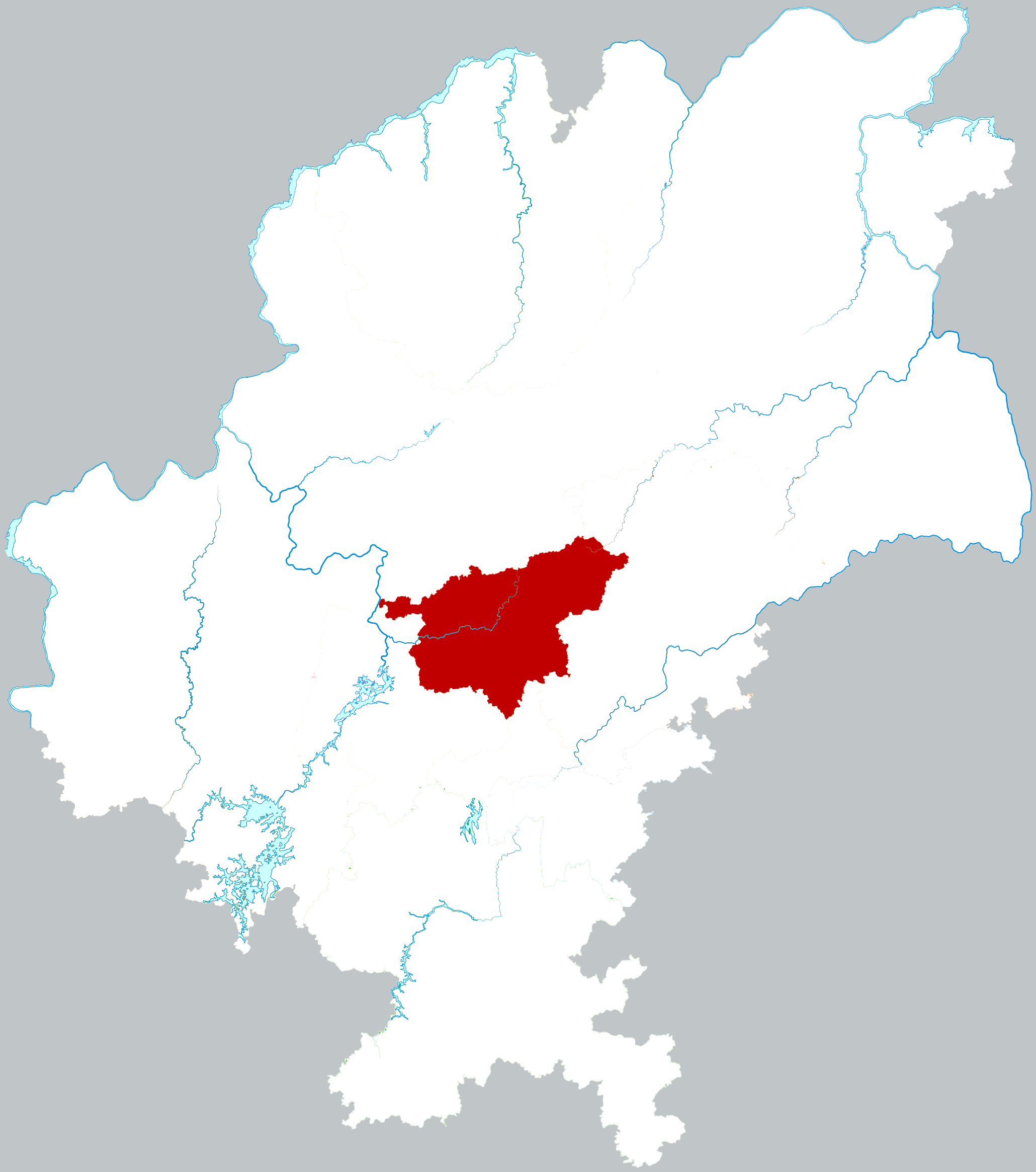 Location of Baiyun district in Guiyang city, China